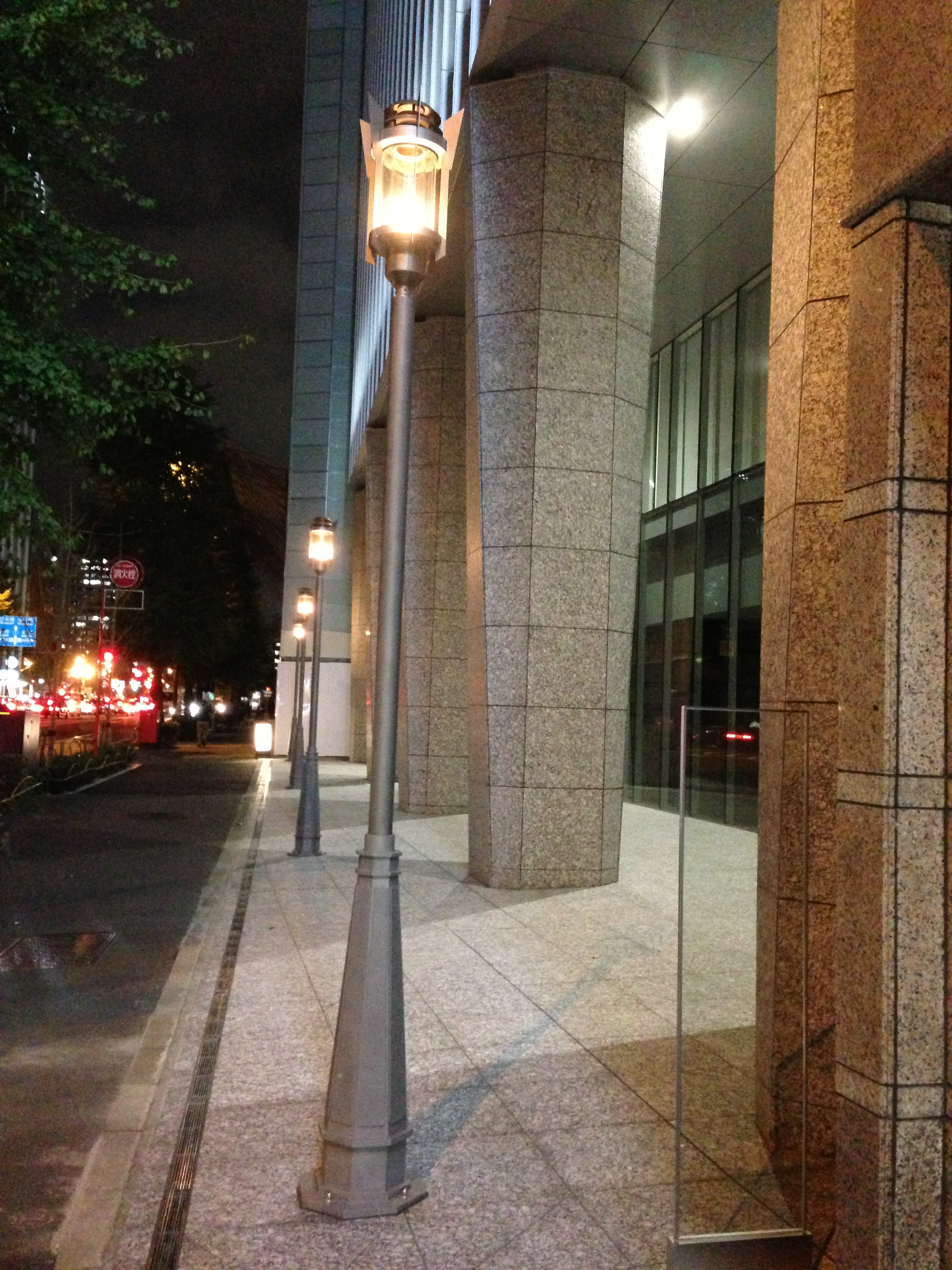 Gas lamp in front of the Japan Gas Association Building, in Minato Ward, Tokyo